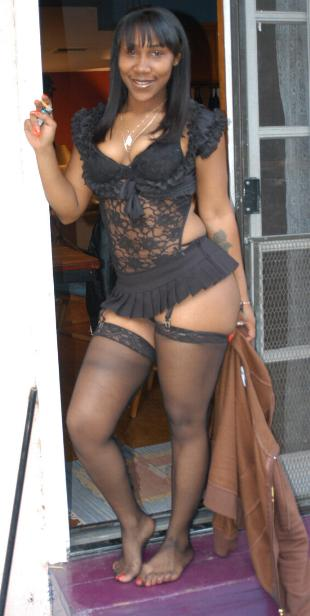 March 20, 2007: Shoots